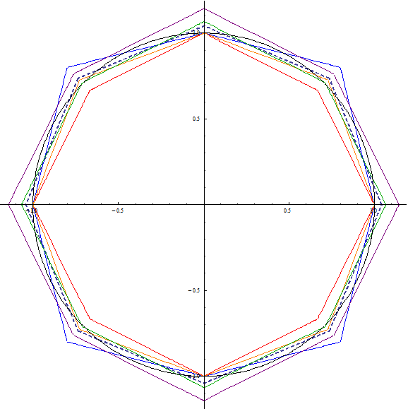 A plot showing the locus of points that give the same value(1) in the AlphaMax+BetaMin algorithm. For several values of alpha and beta. The optimal value is dashed. {1,1/2,Red} {1,1/4,Blue} {1,3/8,Yellow} {7/8,7/16,Purple} {15/16,15/32,Green} A circle with radius 1 in black.